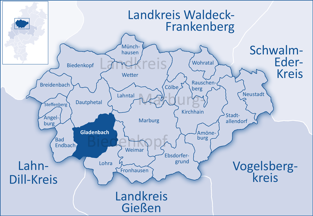 The map shows the municipal territory of Gladenbach in the district of Marburg-Biedenkopf.